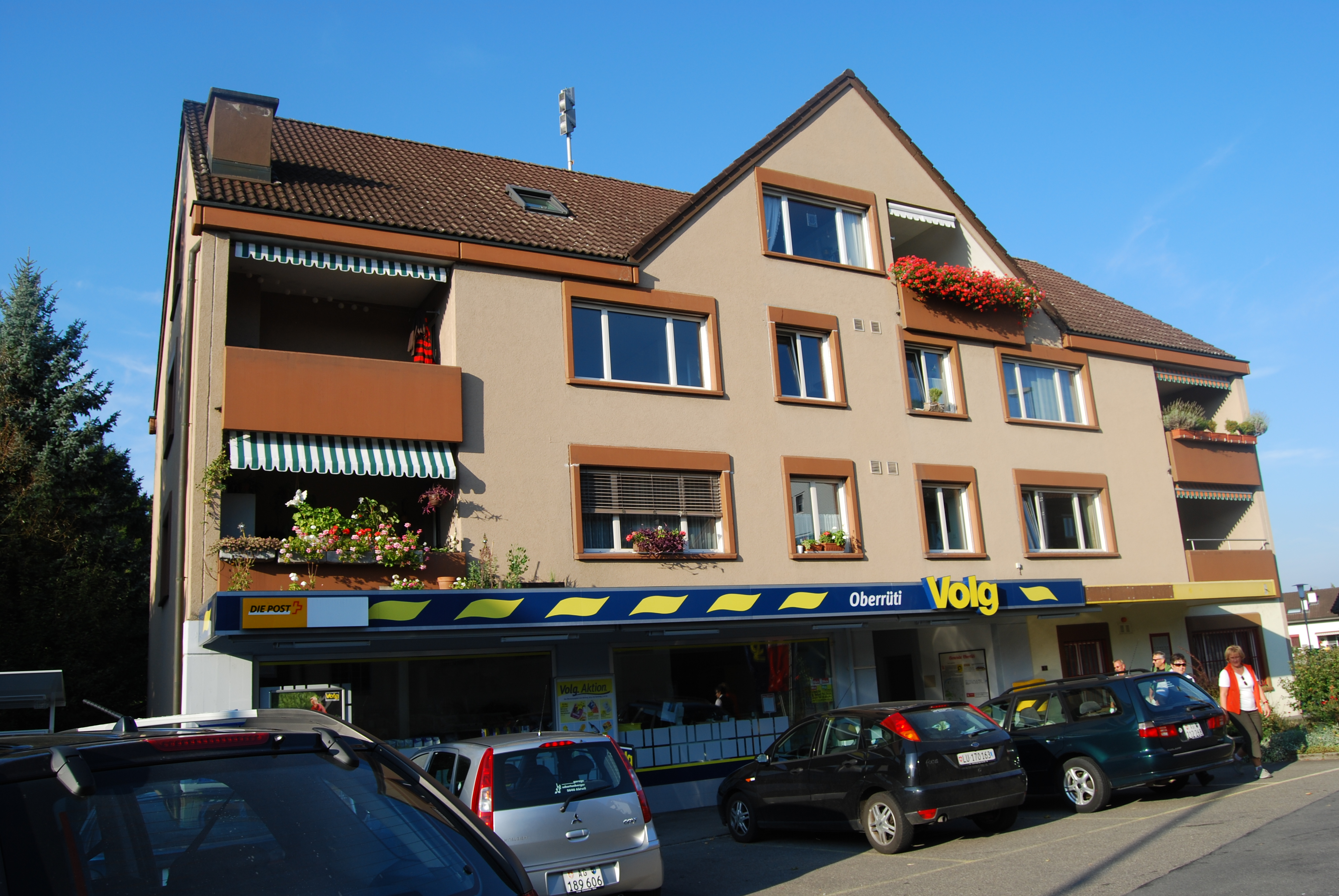 Volg Supermarket at Oberrüti, canton of Aargau, SwitzerlandEsperanto: Volg-Supermerkato en Oberrüti, Kantono Argovio, Svislando